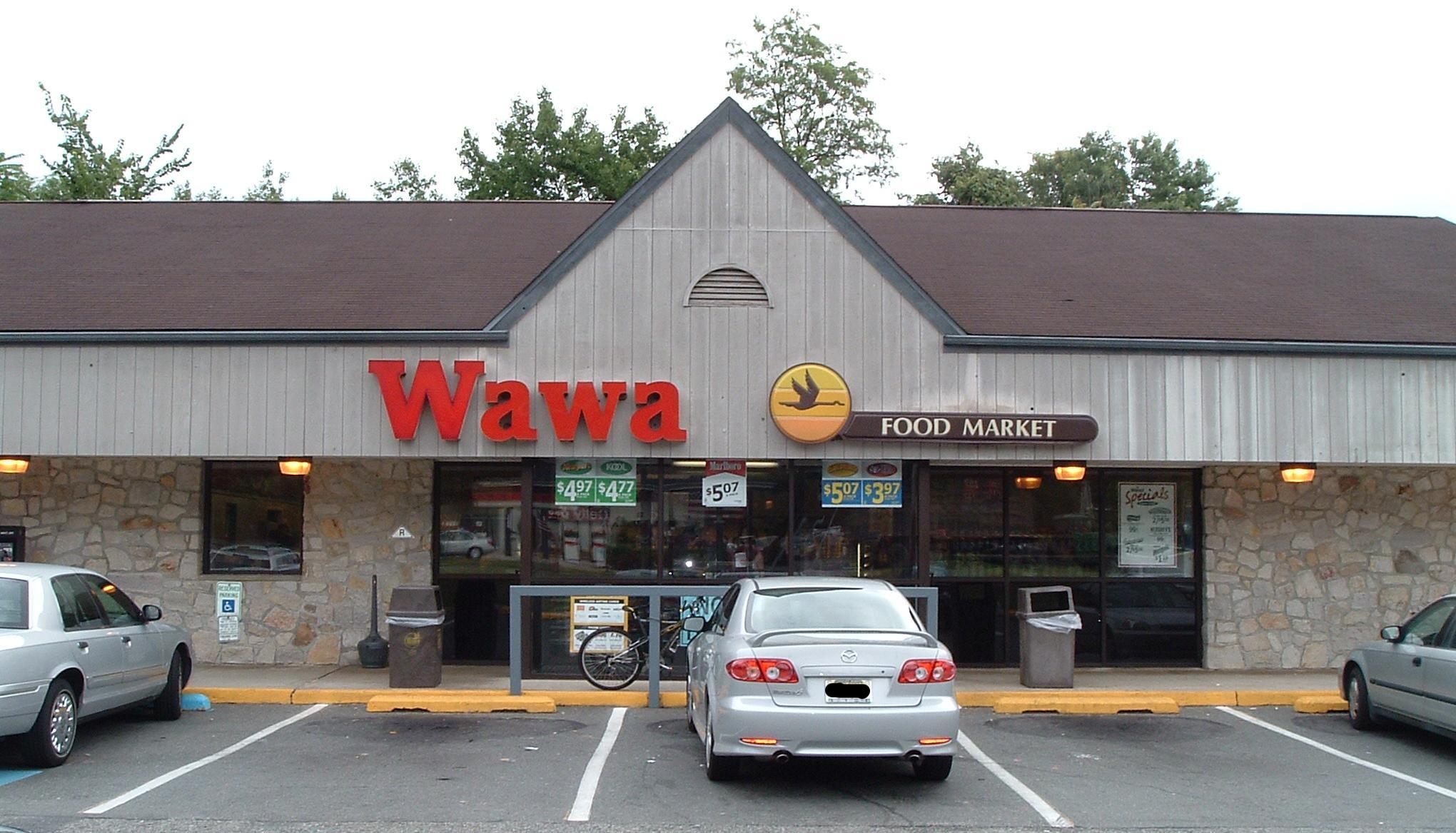 Wawa, 777 WOODBURY-GLASSBORO RD, Mantua Township, NJ ]